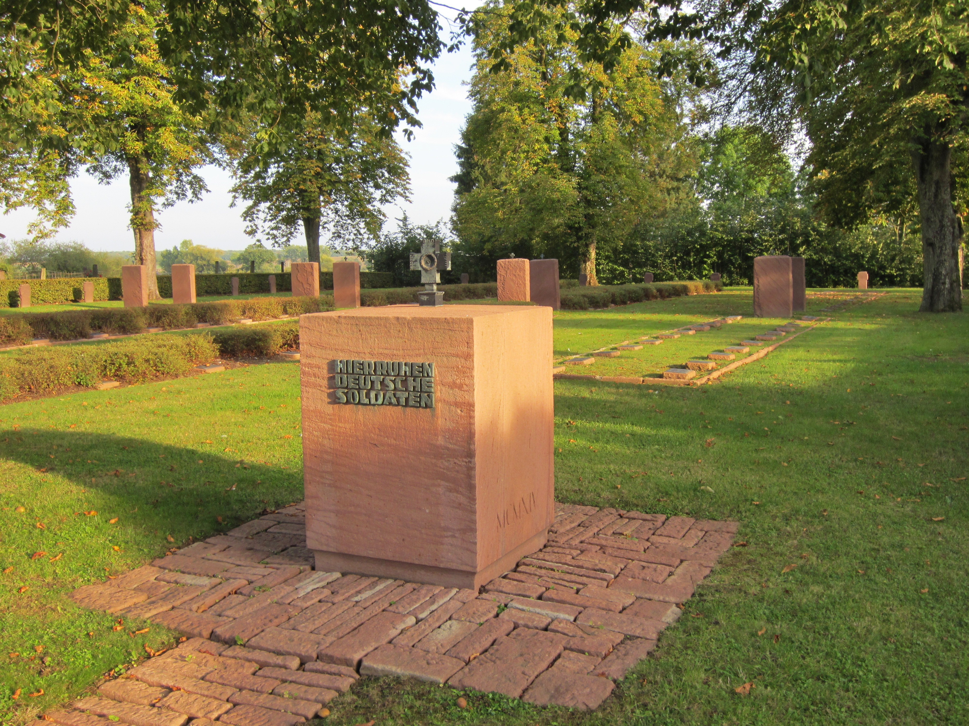 Description cimetiere militaire allemand Harville Date25 September 2011Sourcemon appareil photoAuthorAimelaimePermission(Reusing this file) cimetiere militaire allemand Harville